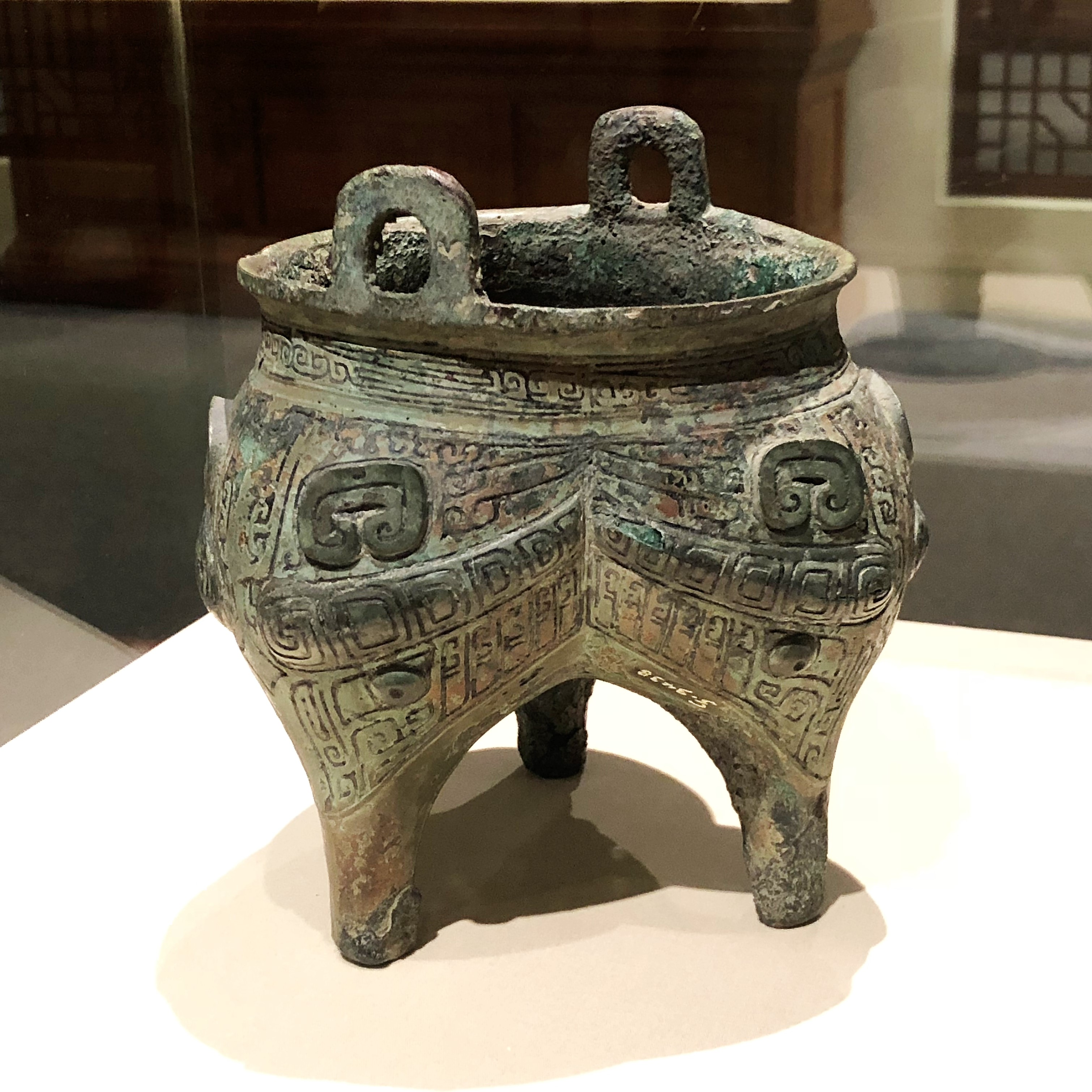 饕餮纹青铜鬲 商代